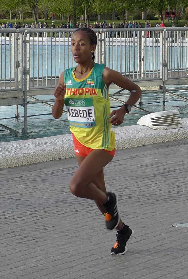 Netsanet Kebede about to break the Women's-Only World Record (time 1:06:11) for half marathon running at the IAAF World Championships, Valencia.